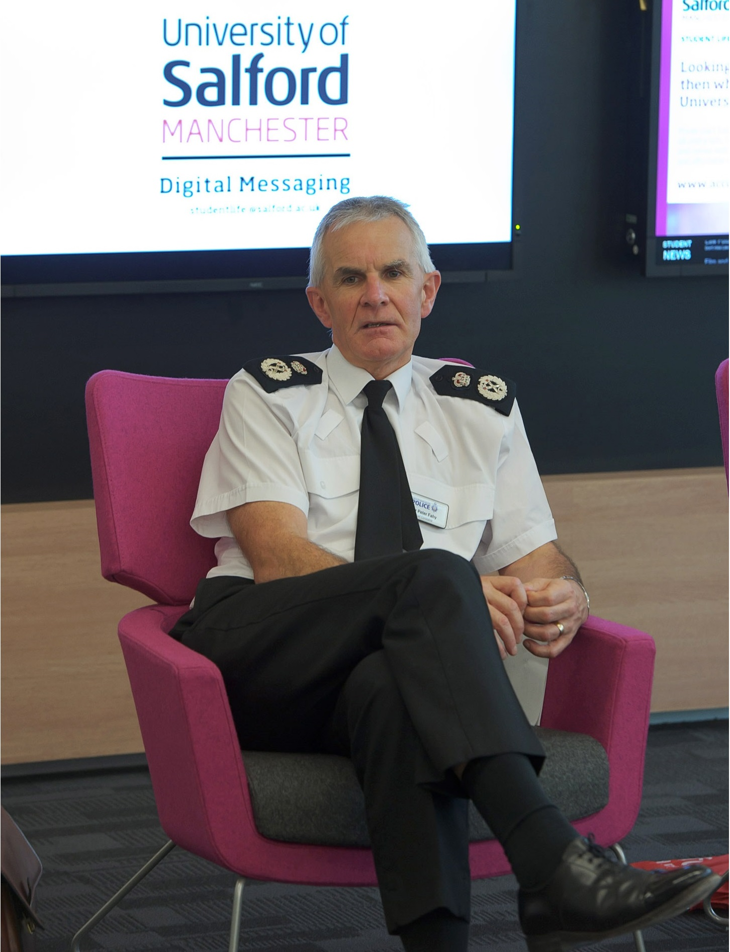 The Chief Constable of Greater Manchester Police, Sir Peter Fahy was given a thorough grilling by University of Salford students today (21 November) as he answered a range of questions relating to budgets, the new commissioner role and graduate careers.